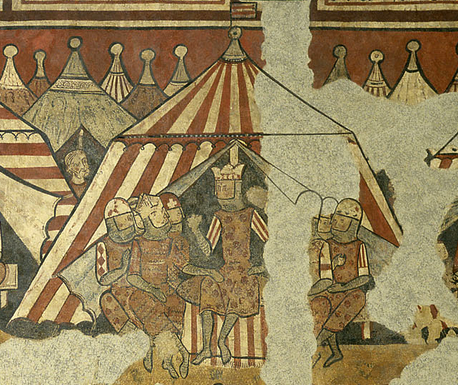 Jaume el Conqueridor